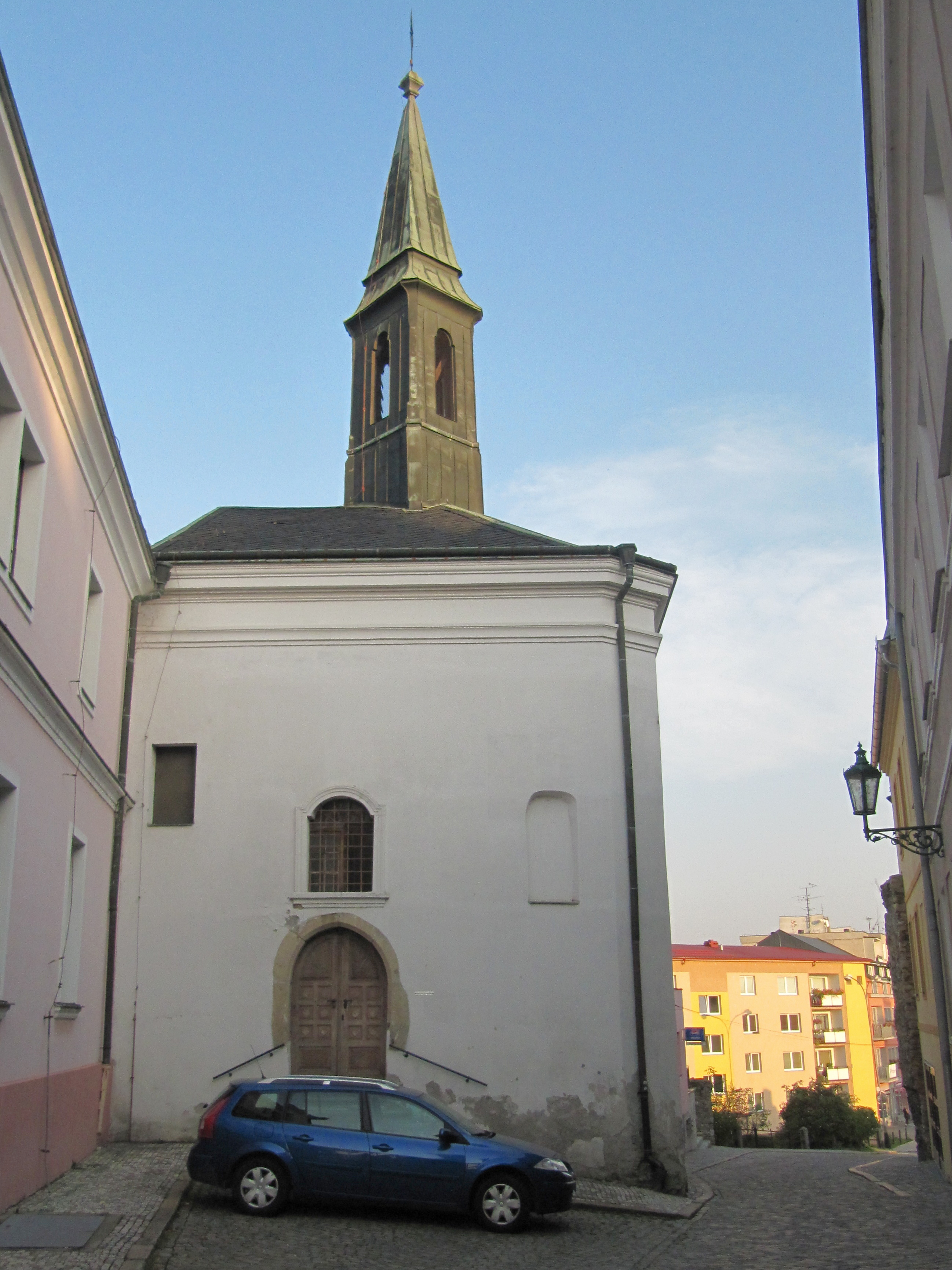 Přerov, Czech Republic. Square Horní náměstí, chapel of Saint George. This photograph was taken within the scope of the third year of the 'Czech Municipalities Photographs' grant.